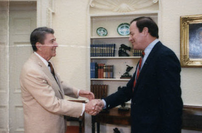 President Ronald Reagan, Richard Shelby, Rick Rush, Donald Rush, Alan Kranowitz, (Not in all Photos) Photo opportunity with Senator Richard Shelby and Rick Rush to receive a gift of a hand done serigraph print entitled "The Fairbanks: XXIII Olympiad"